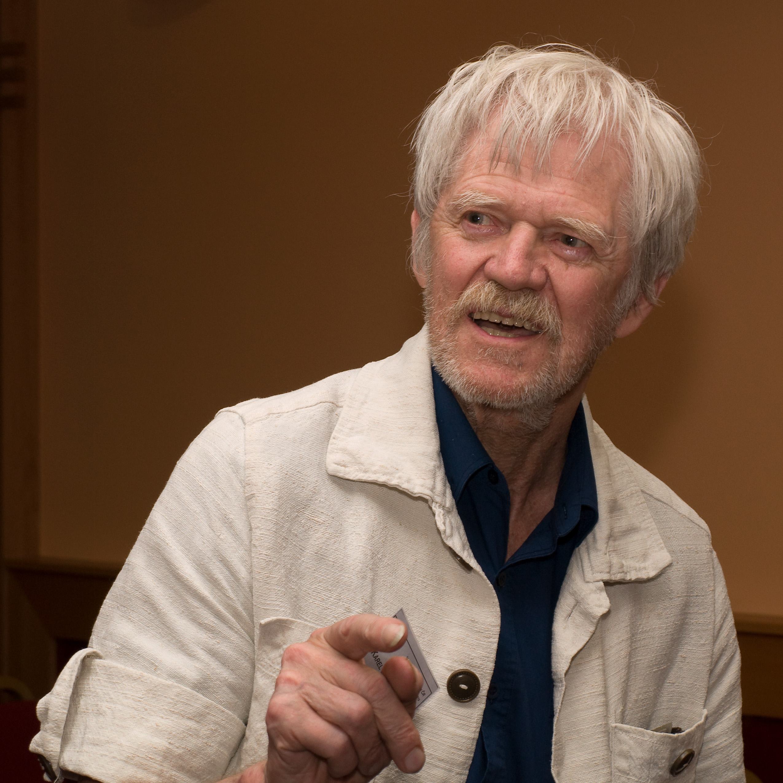 Czech painter, illustrator and printmaker Karel Šafář